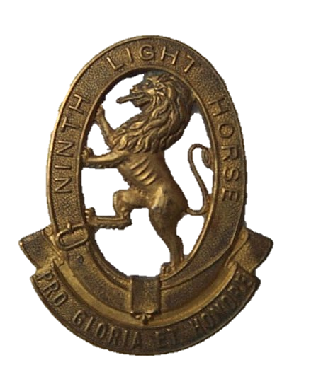 Hat Badge